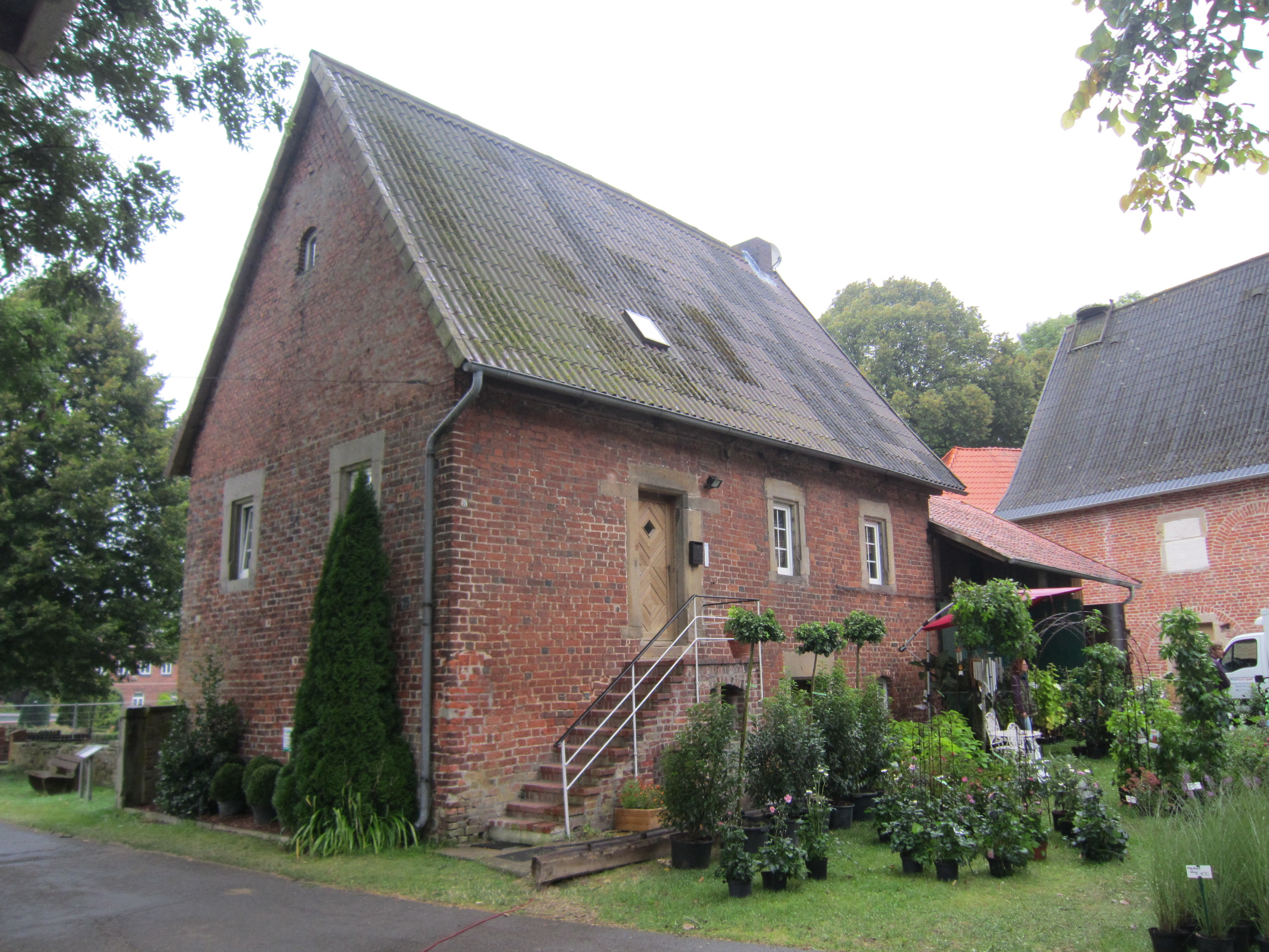 Garden festival at Schinna Monastery